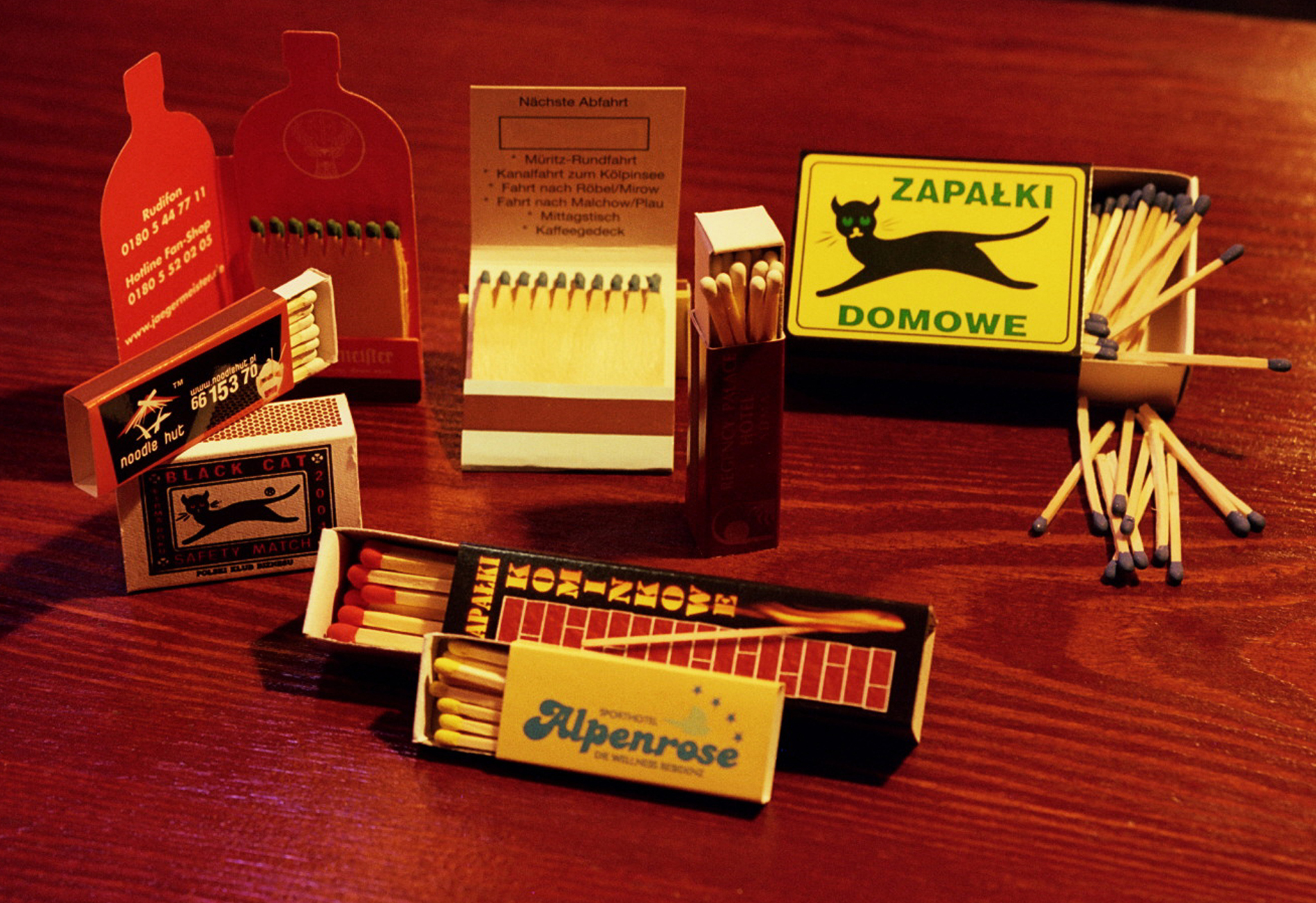 Match Boxes with "Black cat". Author: Przykuta Date: december 2005